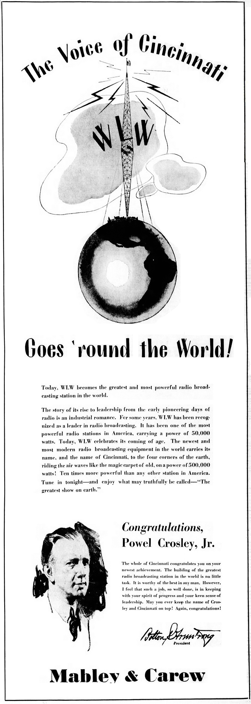 On May 2, 1934, radio station WLW in Cincinnati, Ohio debuted its 500,000 watt radio transmitter, which was ten times more powerful than any other station in the United States. Congratulations Powel Crosley Jr.